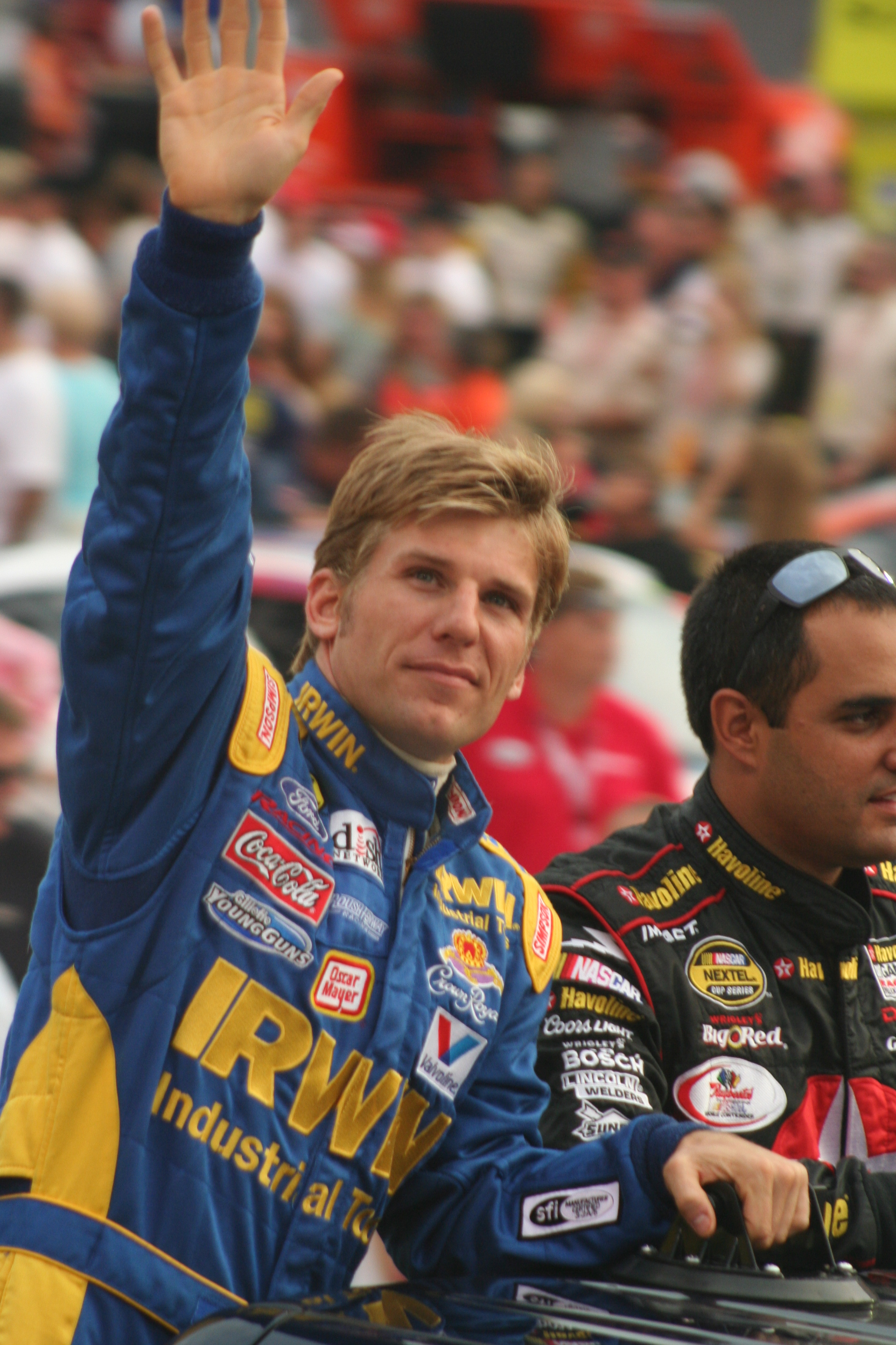 NASCAR driver Jamie McMurray at the August 2007 race at Bristol Motor Speedway